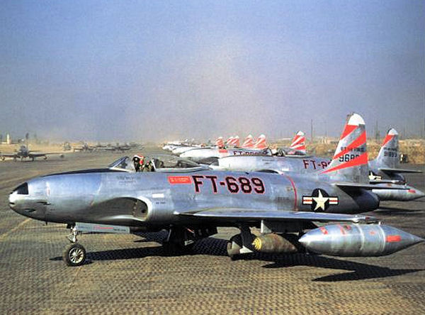 Lockheed F-80C-10-LO Shooting Star serial 49-689 of the 49th Fighter-Bomber Group, Korea, 1950.